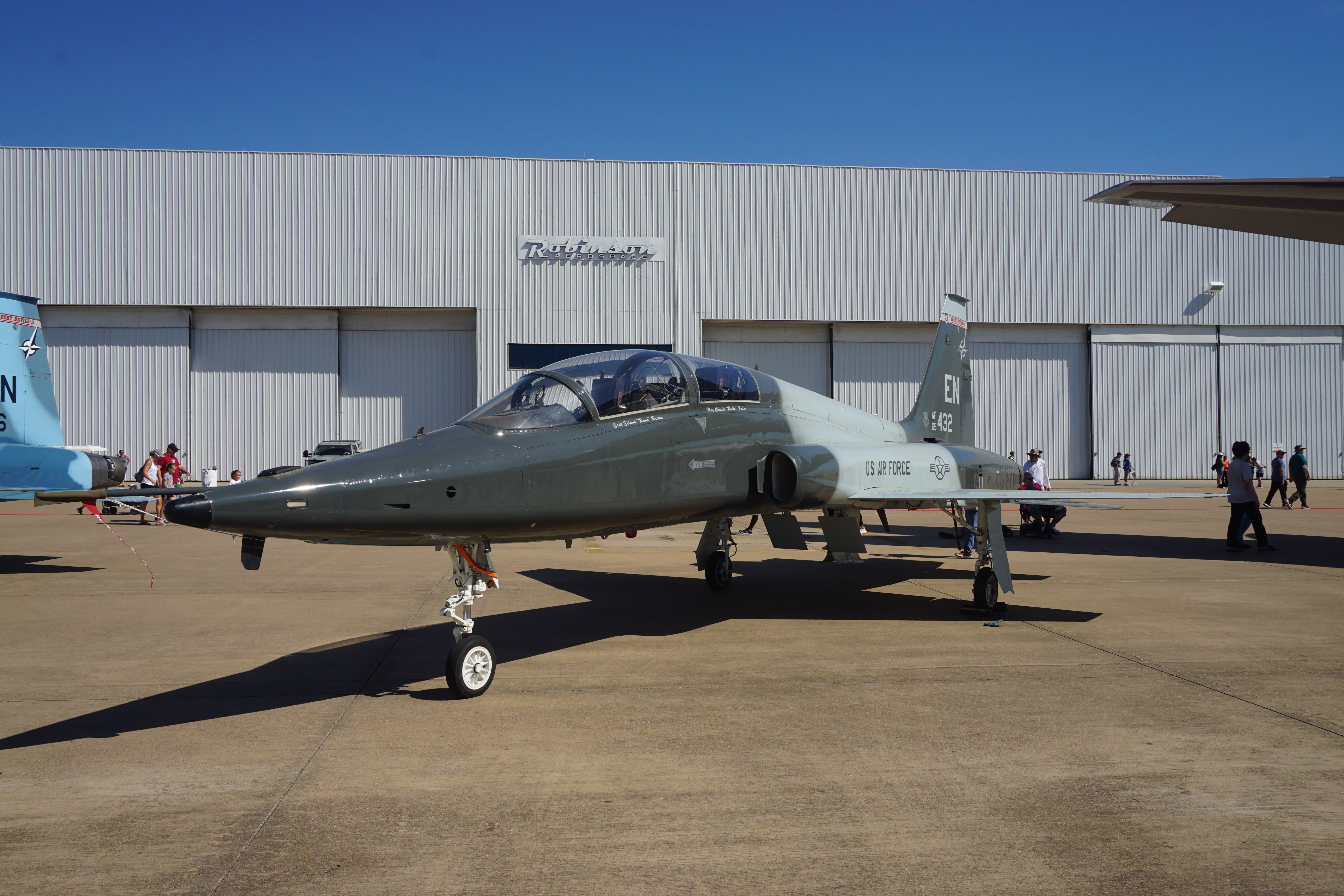 A Northrop T-38 Talon on static display at the 2019 Fort Worth Alliance Air Show at Fort Worth Alliance Airport in Fort Worth, Texas (United States).